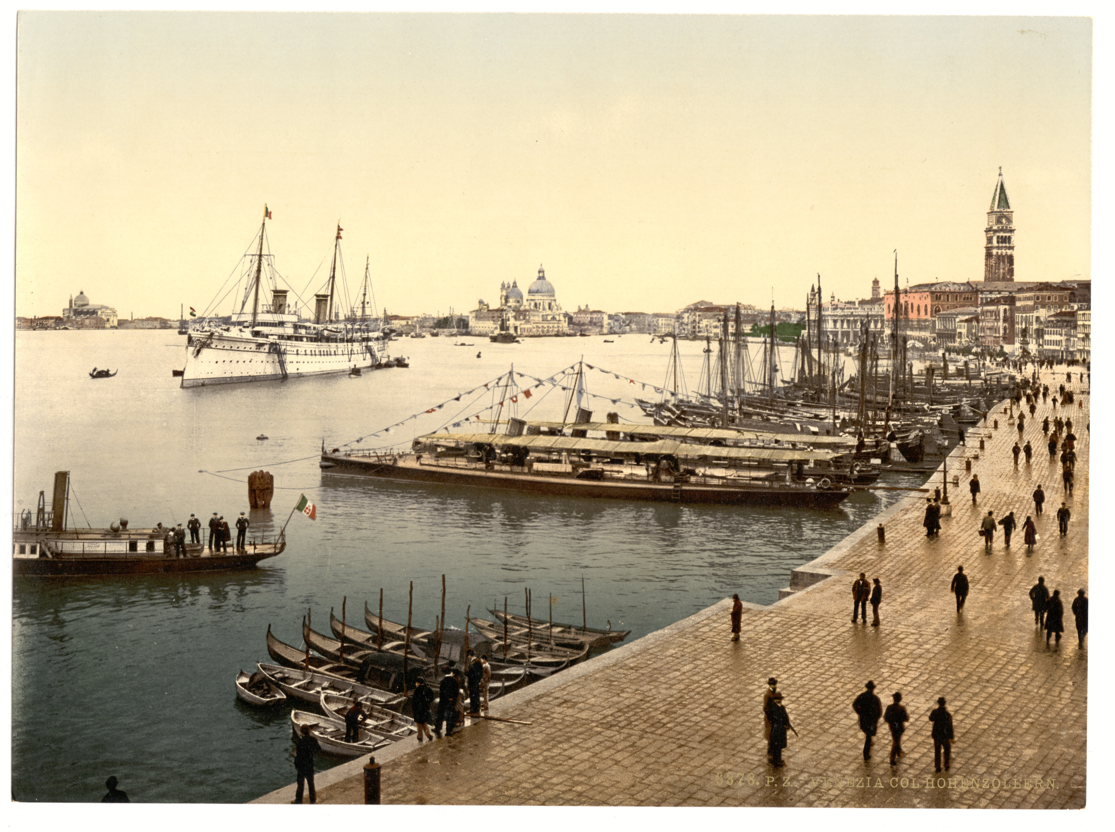 Print no. "6878".; More information about the Photochrom Print Collection is available at Forms part of: Views of architecture and other sites in Italy in the Photochrom print collection.; Title from the Detroit Publishing Co., Catalogue J-foreign section, Detroit, Mich. : Detroit Publishing Company, 1905.